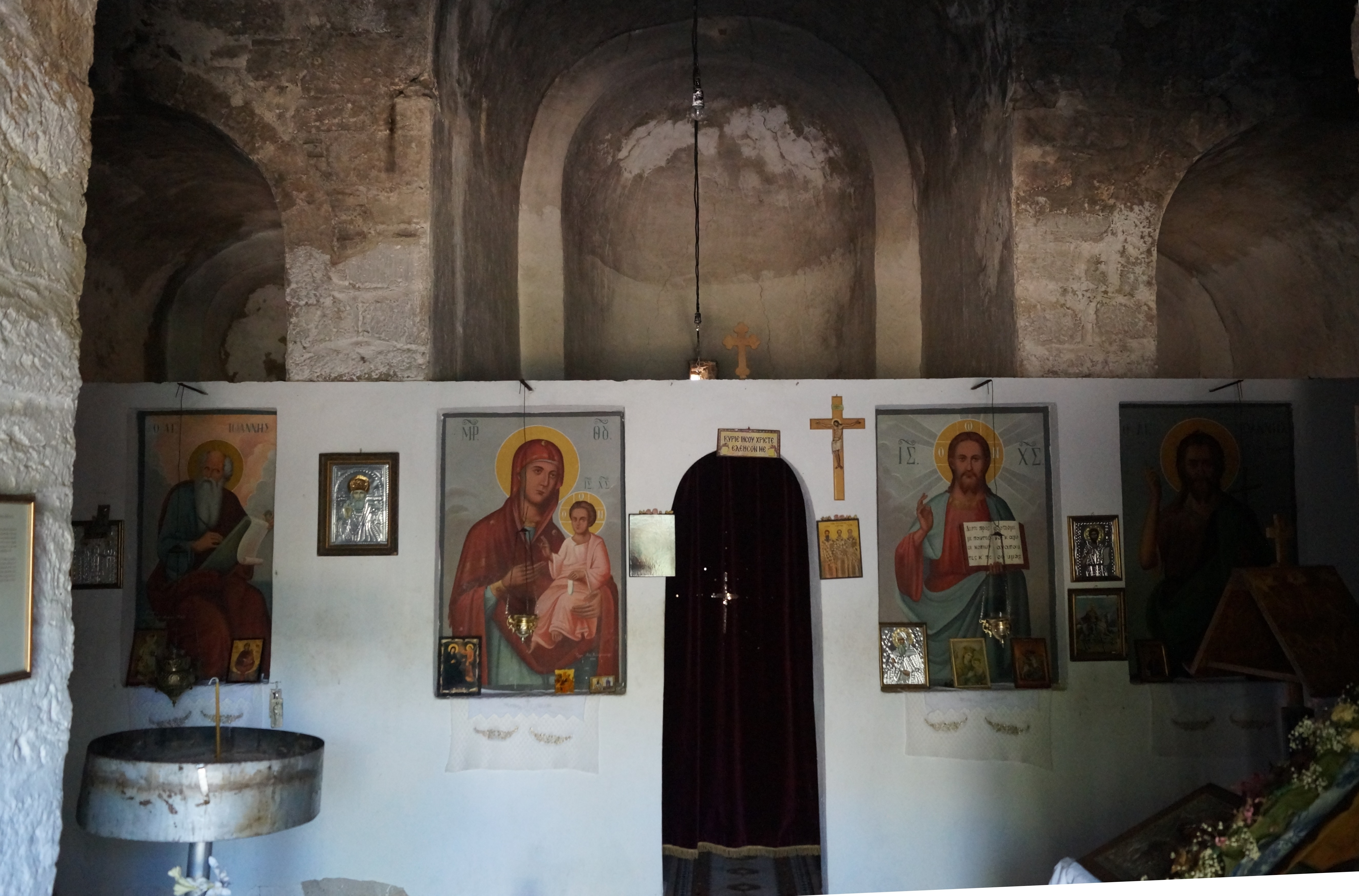 Lygourio, Argolida, Greece: Church of Agios Ioannis Theologos, 4 km north-east of Lygourio. Iconostasis of the church.